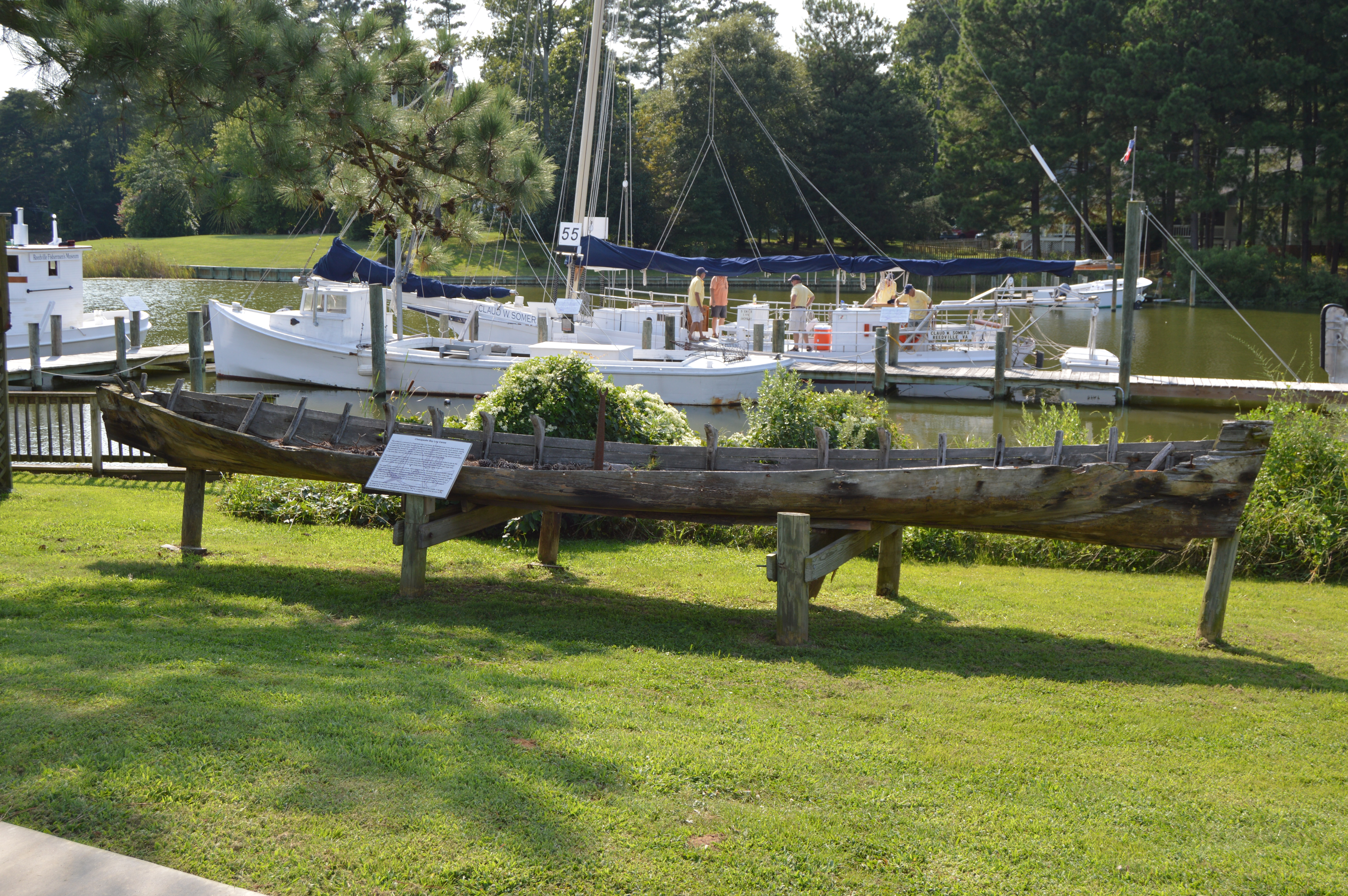 A preserved log canoe at the Reedville Fishermen's Museum in Reedville, Virginia, United States. In the background, the skipjack Claude W. Somers is being docked after a short voyage.